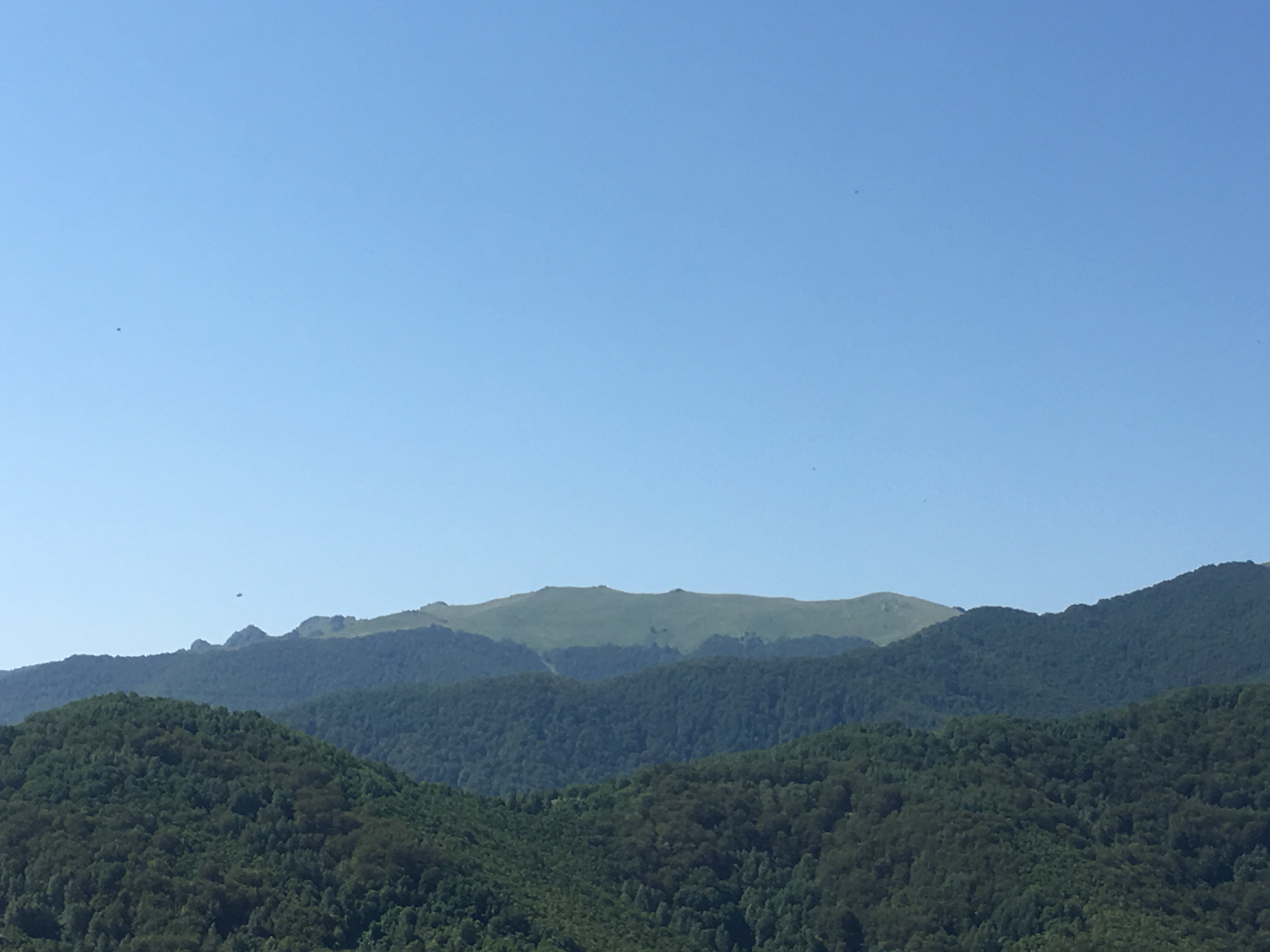 Mountain Pesjak seen from the village of Dolno Krušje